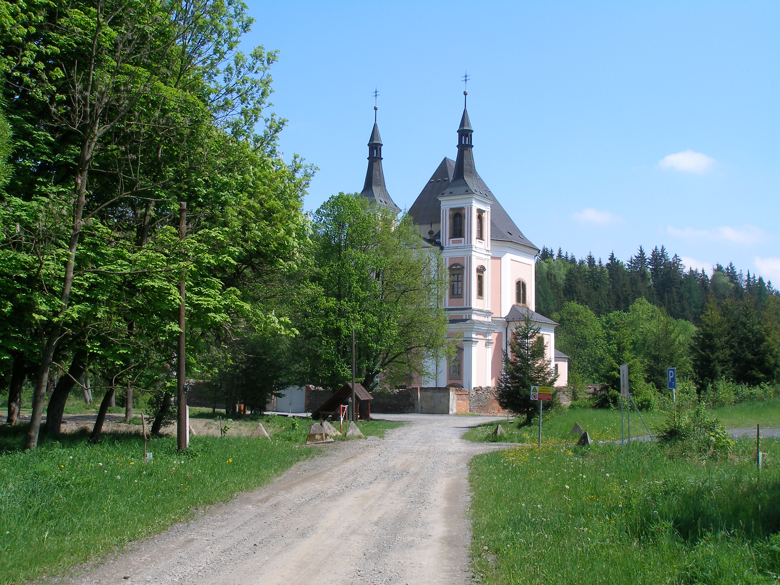 Stará Voda - the church